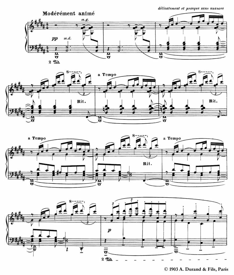 Estampes Pagodes 1th page.